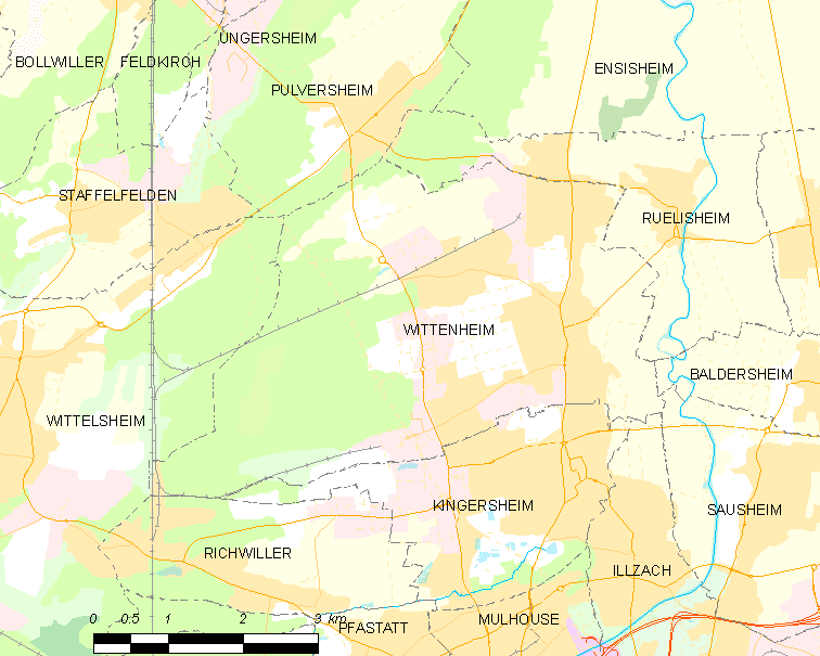 Map of French municipality